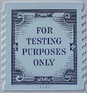 United States test stamp Scott TD136, self-adhesive coil, die cut 9-3/4, Plate number 1111. 2004-05.